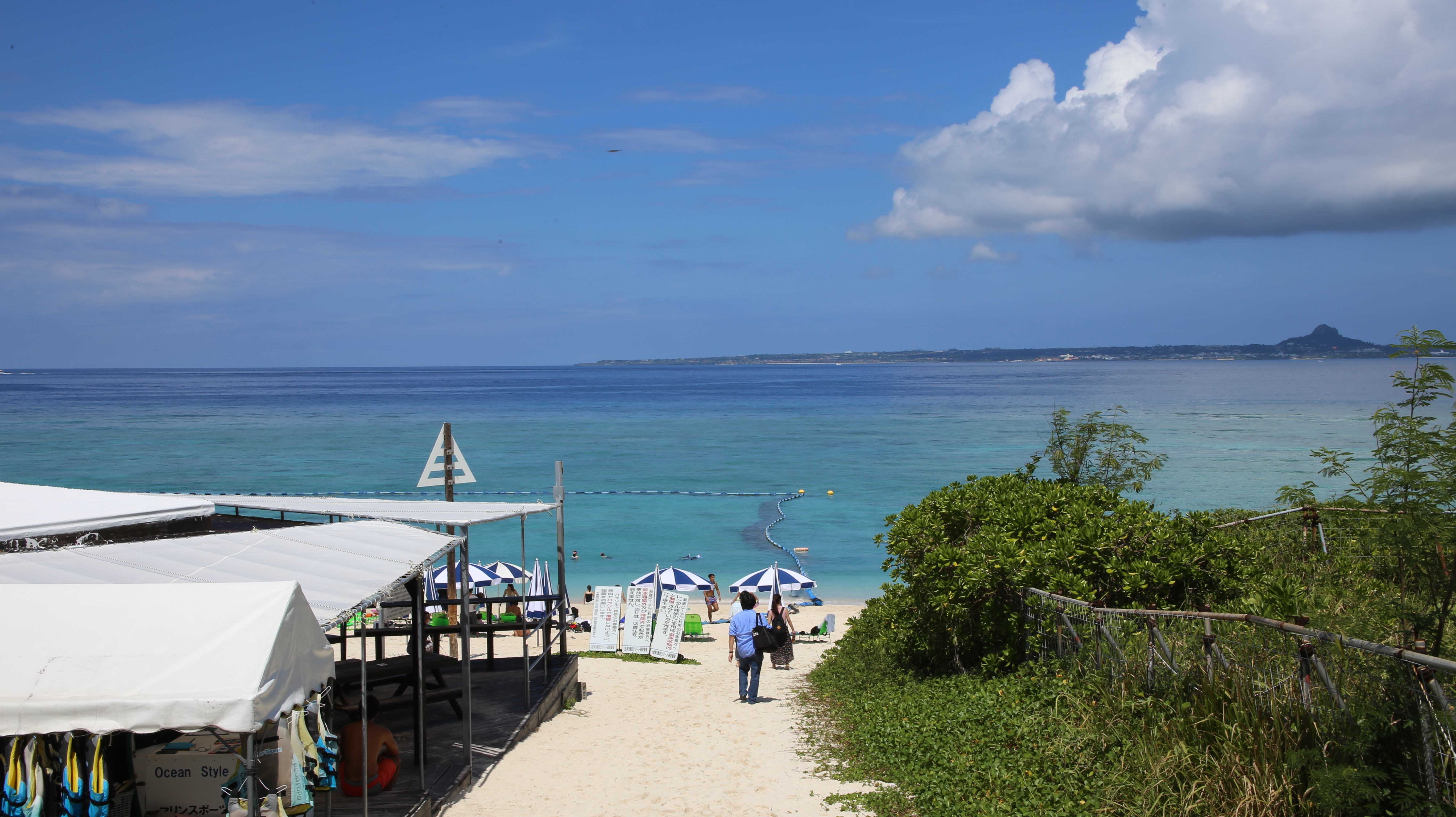 Sesoko Beach, Motobu, Okinawa, Japan